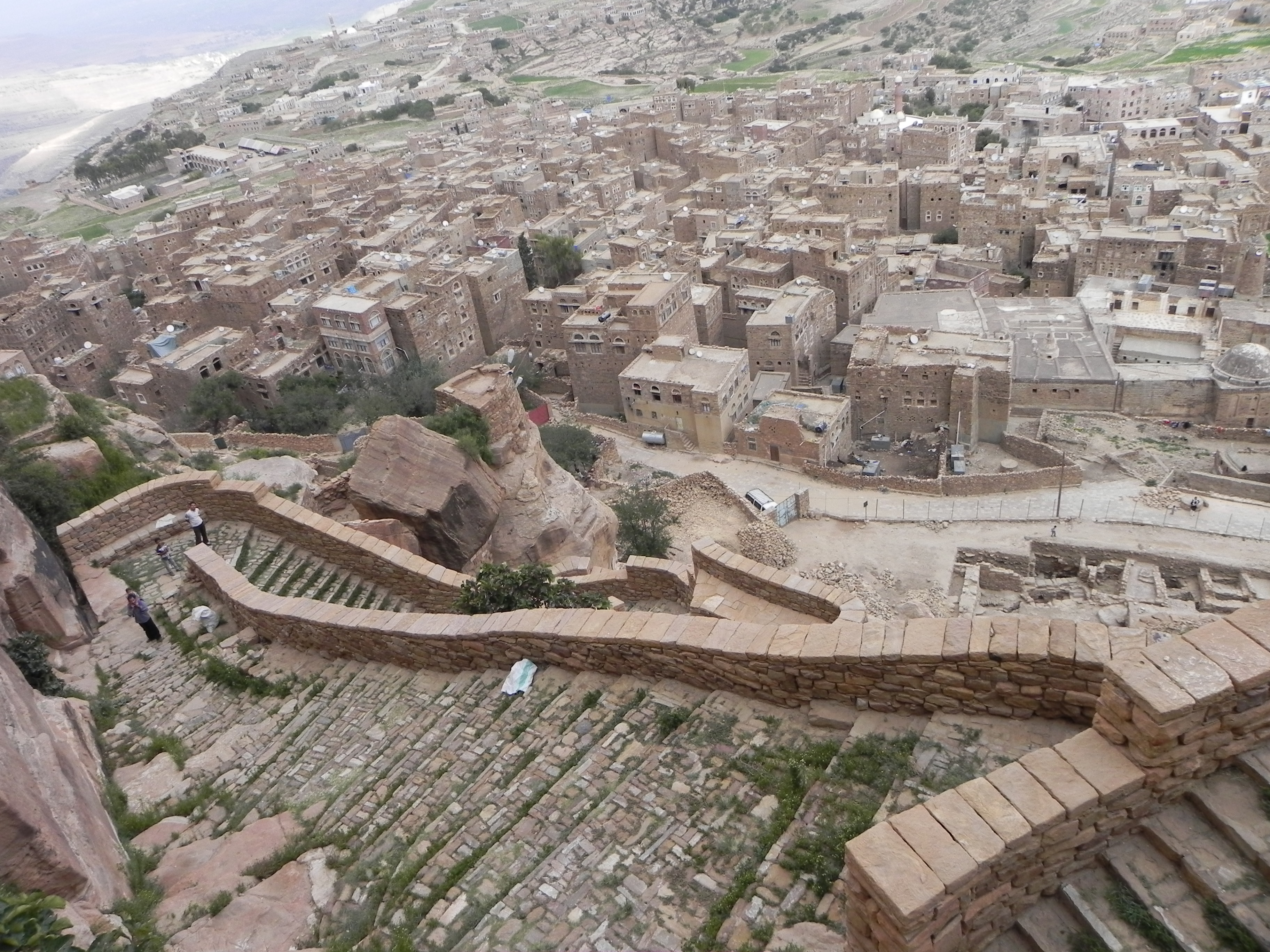 The steps leading to Thula fortification.